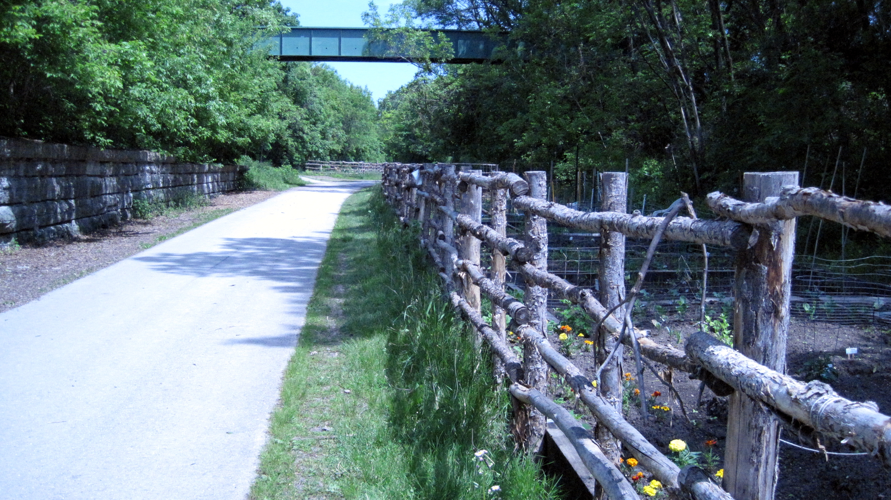 Oak Leaf Trail in Milwaukee, with community gardens alongside trail. Portion of trail here is located adjacent to Riverside Park (actually right through the middle) and the Urban Ecology Center on Milwaukee's East Side.